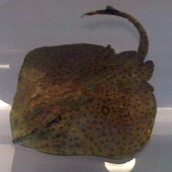 Speckled ray (Raja polystigma) at the Natural History Museum in London, England.